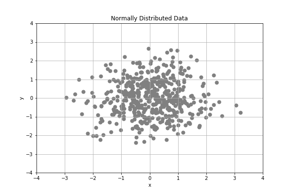 A scatter plot representing a two dimensional dataset of normally distributed points, with a center at (0, 0) and a unity covariance matrix.